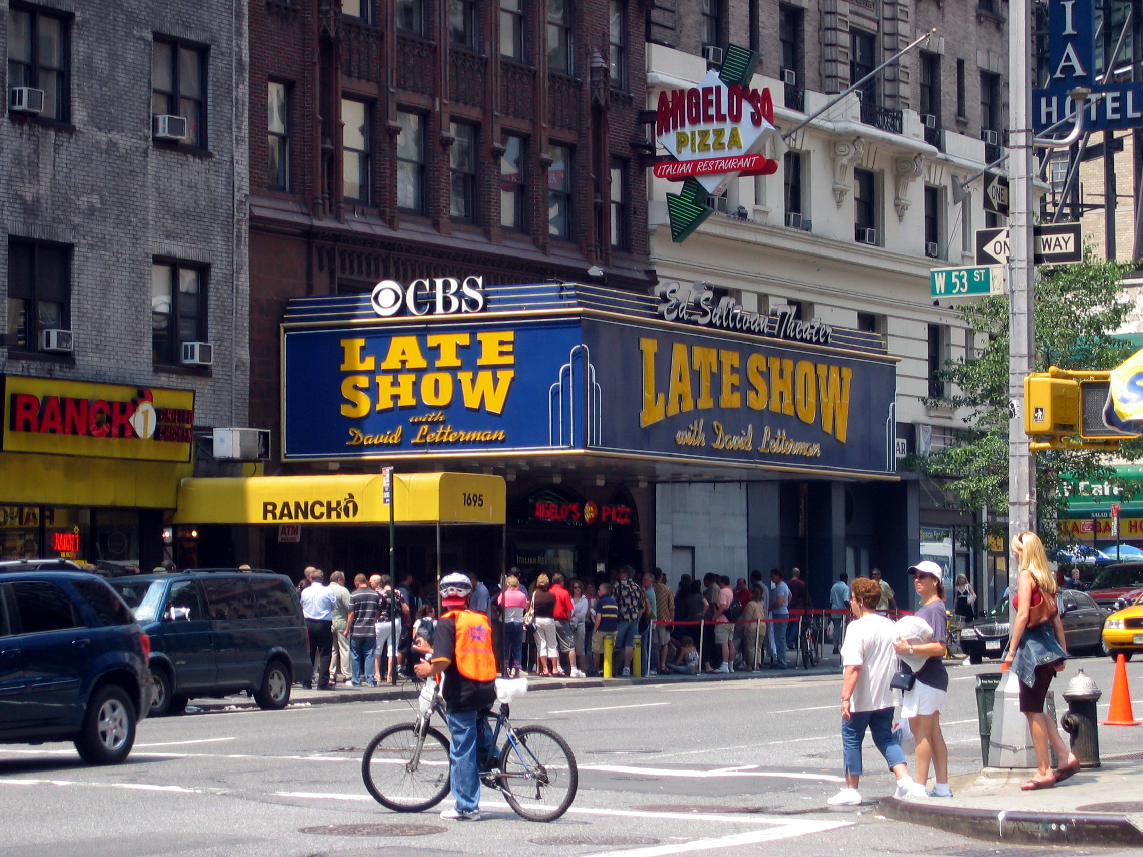 Crowds outside CBS's Ed Sullivan Theater, awaiting entrance to see the Late Show with David Letterman.